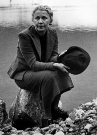 Portrait of Olga Scheinpflugová (1902-1968), Czech writer and actress. Cropped from a photograph showing her by a fjord.